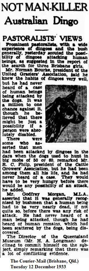 from the National Library Australian newspapers digitisation program which are pre-1955 so no copyright: "The service includes newspapers published in each state and territory from the 1800s to the mid-1950s, when copyright applies."